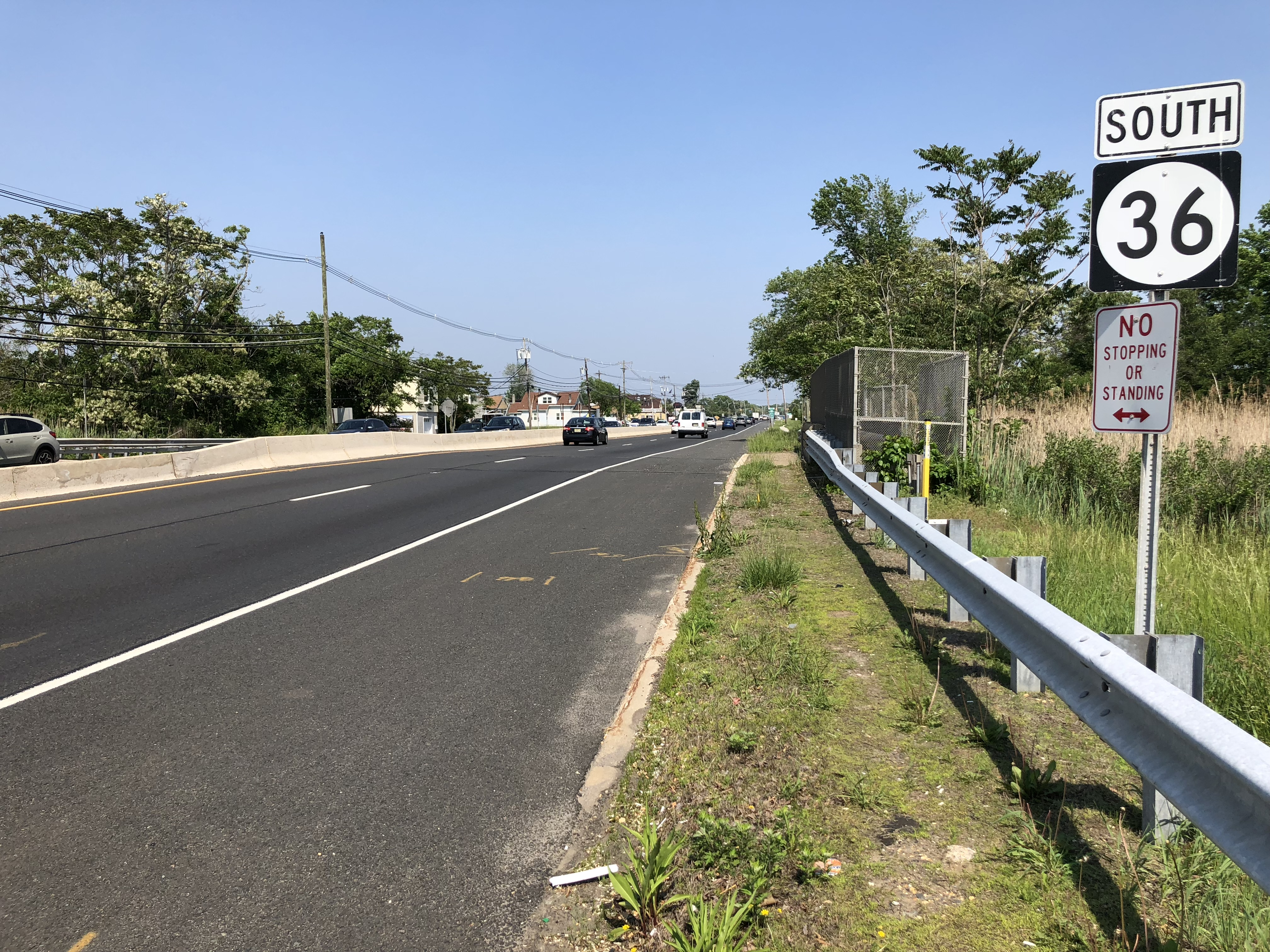 View south along New Jersey State Route 36 between Shore Road and Harris Avenue on the border of Hazlet Township and Union Beach in Monmouth County, New Jersey